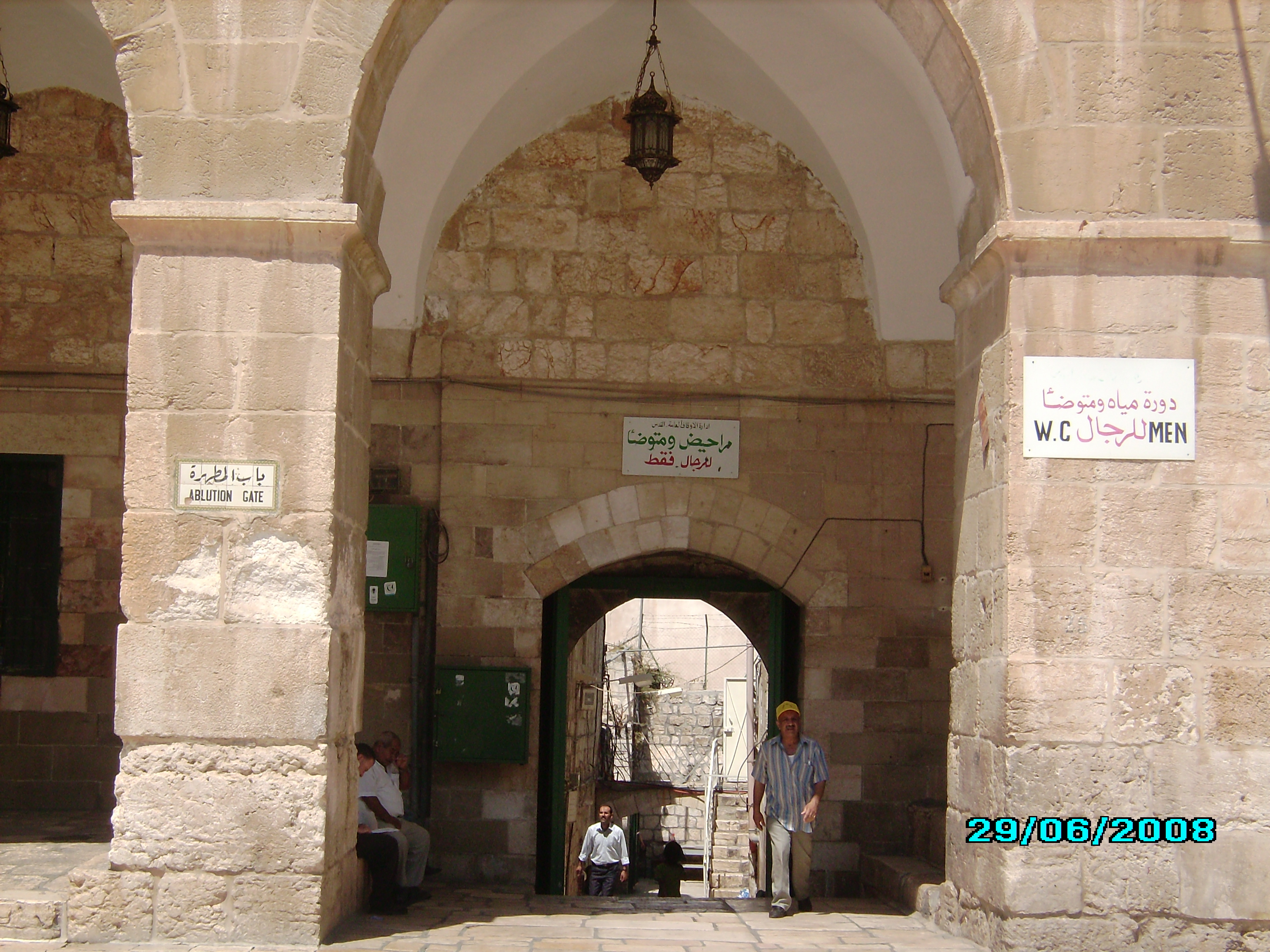 Al-Aqsa Mosque